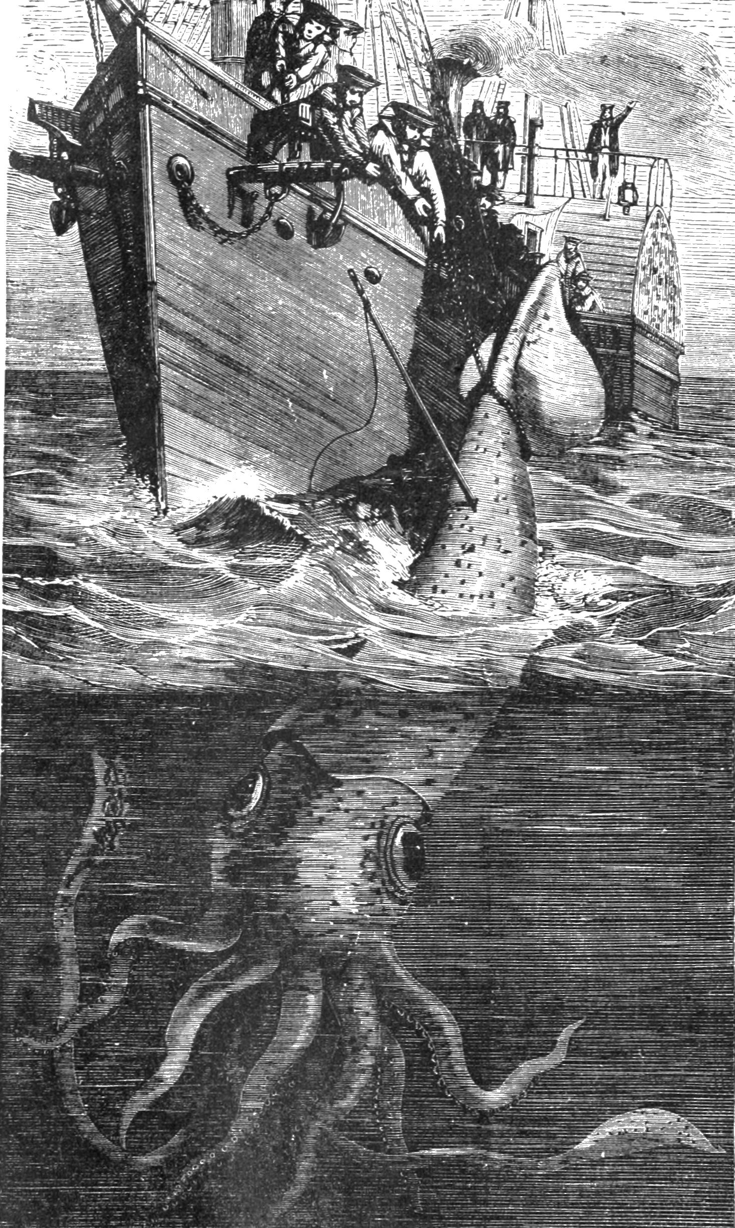 Capture of a giant squid